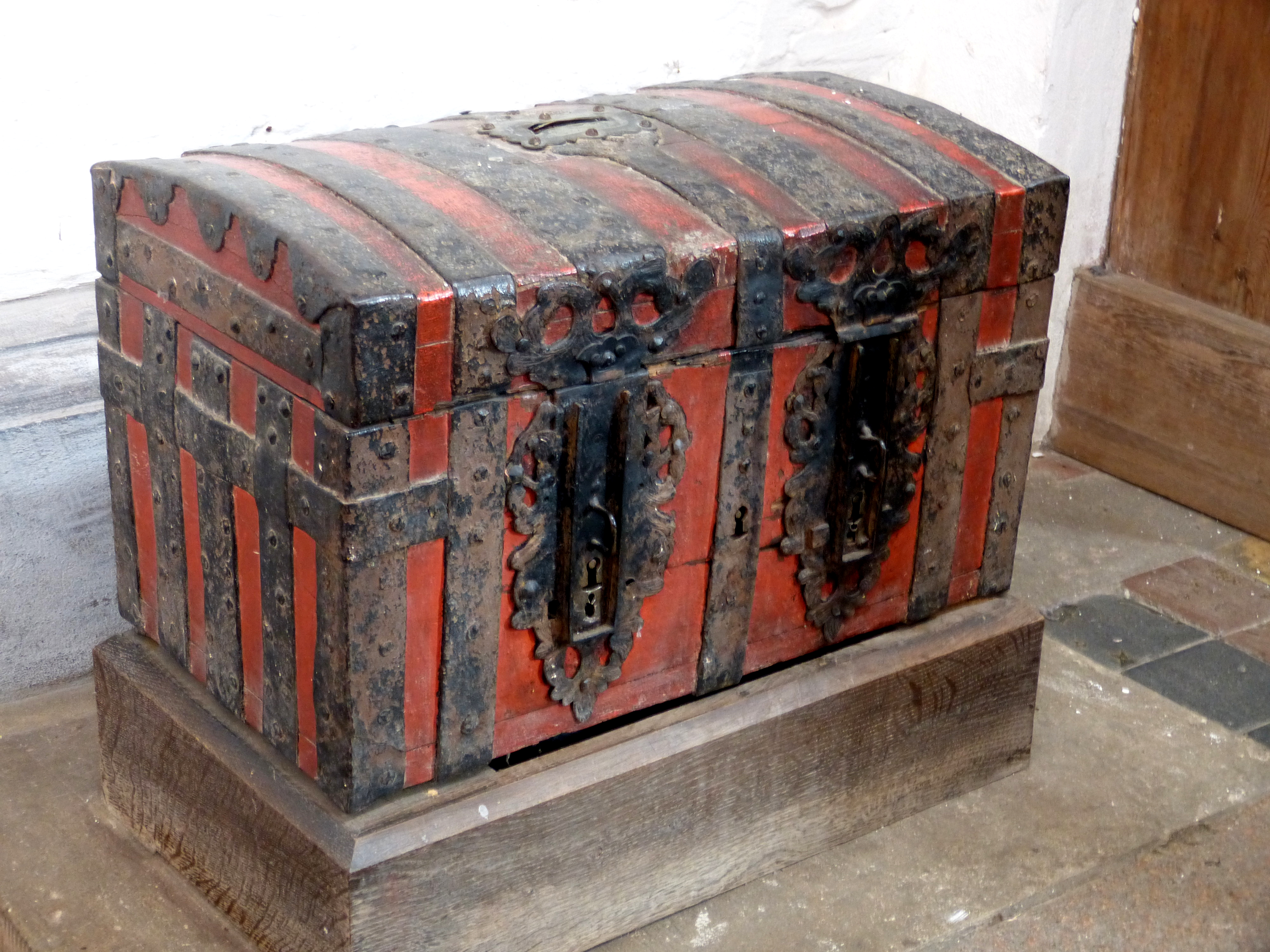 Schwerin Cathedral ( Mecklenburg ). Alms chest.